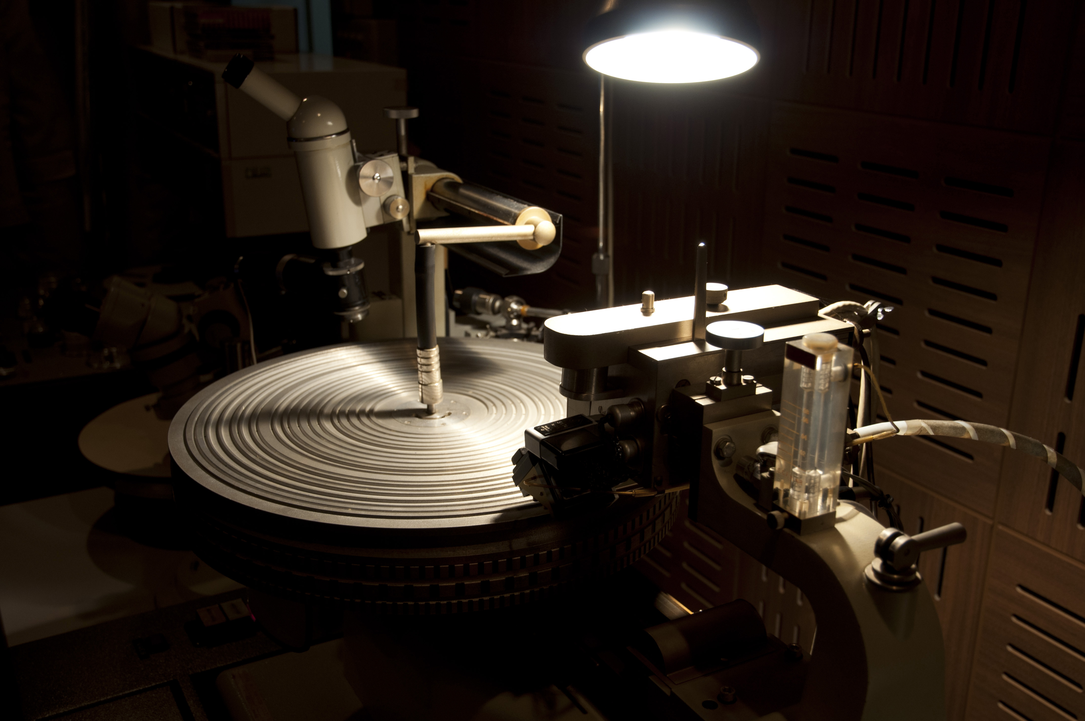 Neumann Record Cutting Machine